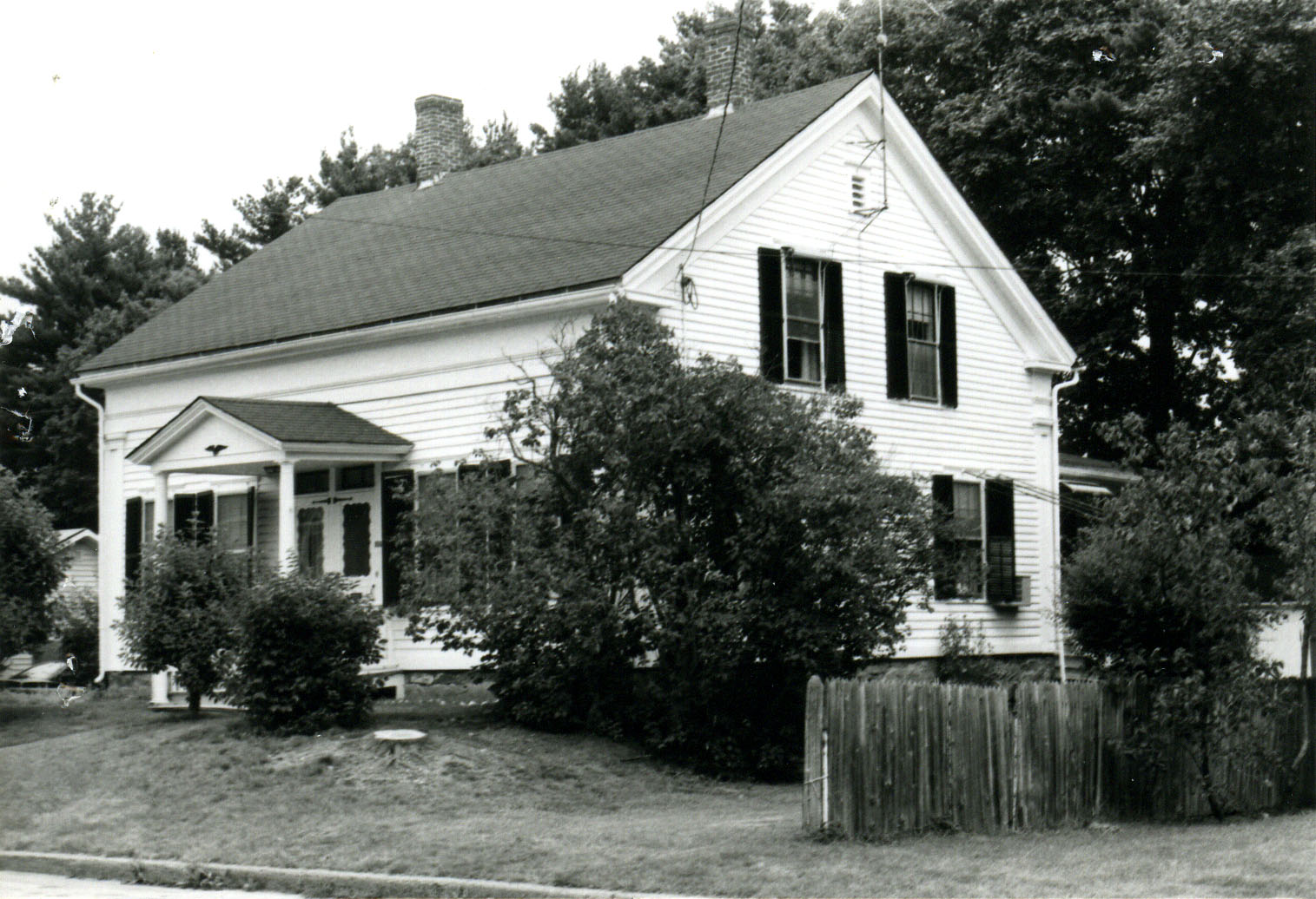 William Hodgson Two-Family House, Southbridge, Massachusetts. This house has apparently been demolished.